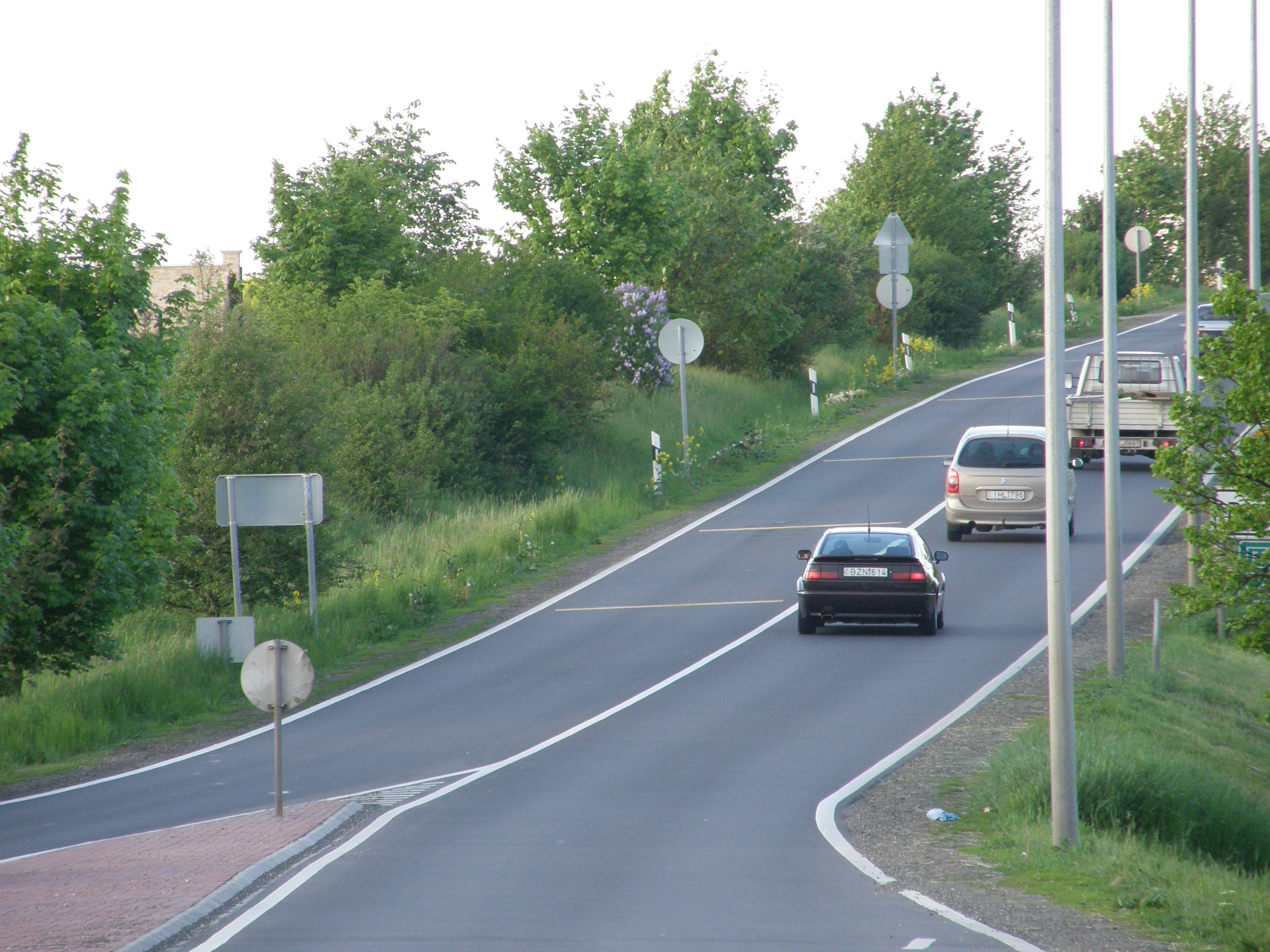 Road 2 in Hungary